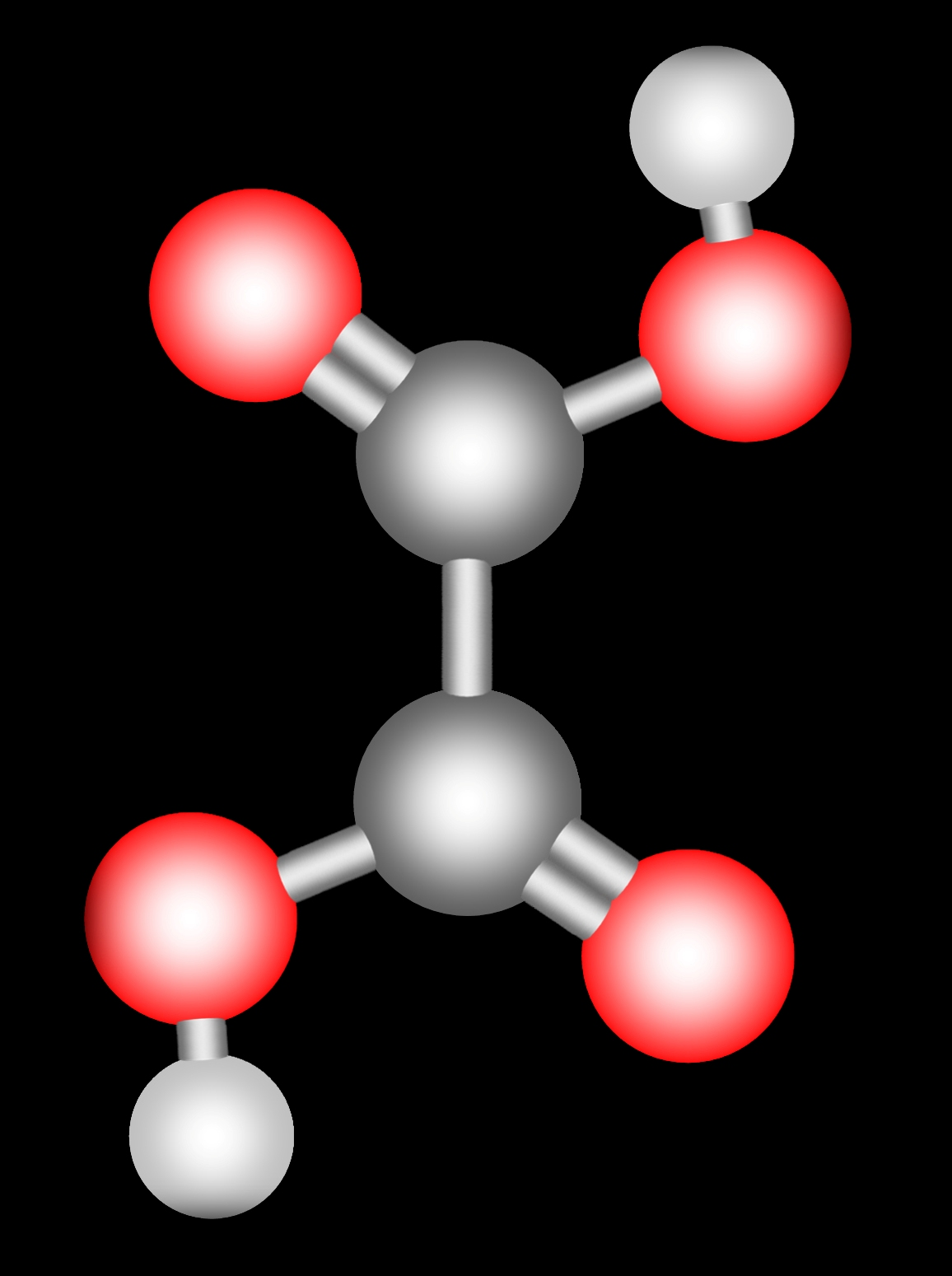 Oxalic acid, HOOCCOOH. Used in homeopathy as remedy: Acidum oxalicum / Oxalicum acidum (Ox-ac.)